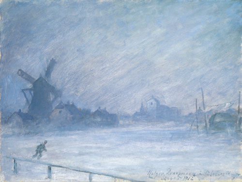 View from my Studio. Snowstorm. December 26, 1906 (Udsigt fra mit Atalier. Snestorm. 2. Juledag), painting by Holger Drachmann